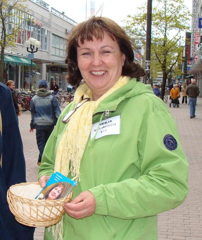 Finnish politician (Centre Party) Merja Vanhanen in Pori